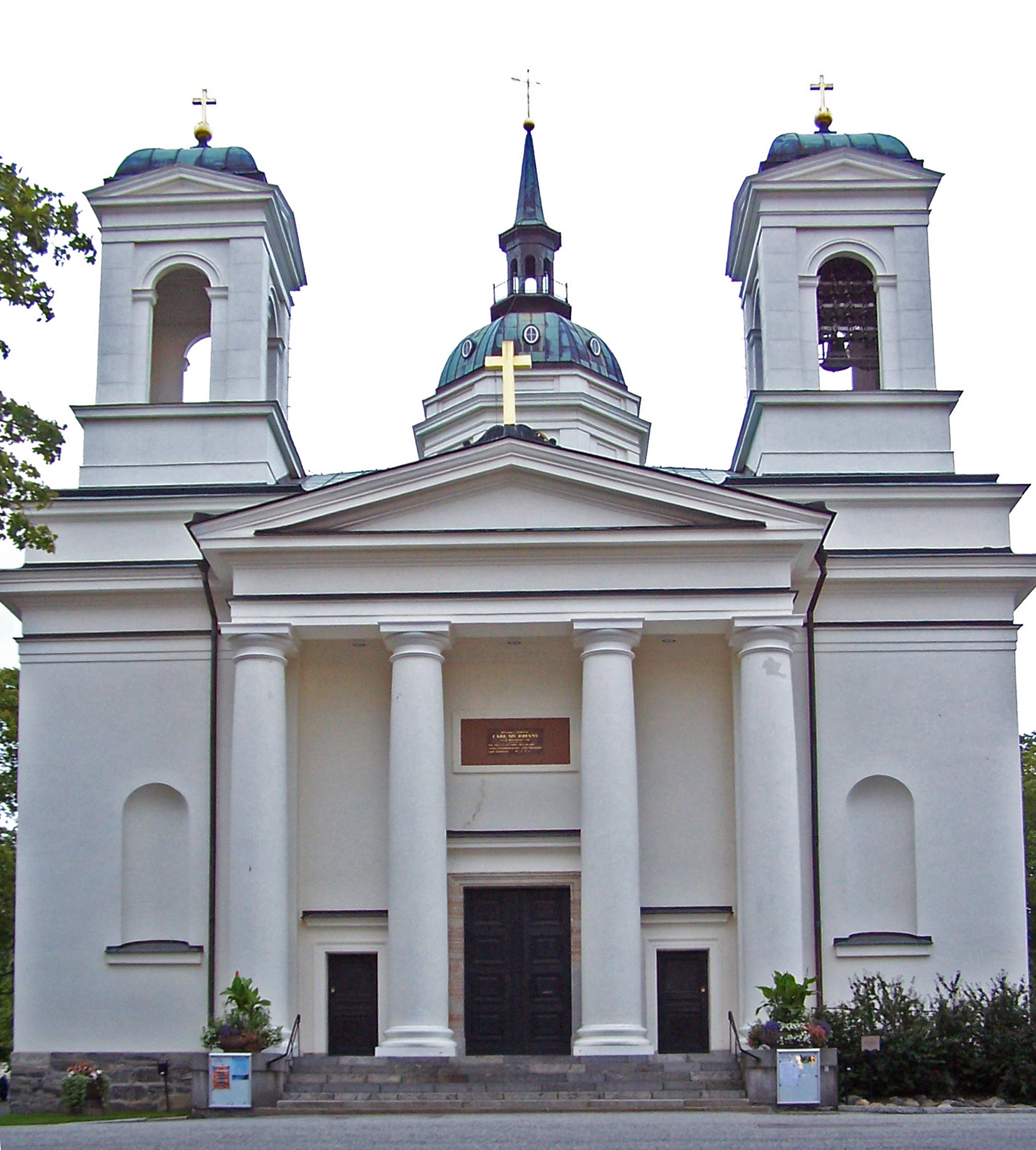 Härnösands domkyrka (cathedral of Härnösand) - From west, Sweden.